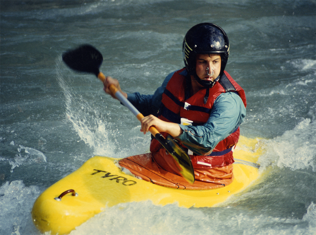 Whitewater kayaking, Isére, Bourg-Saint-Maurice